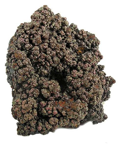 Limonite Locality: Qinglong (Dachang) Sb-Au deposit, Qinglong County, Qianxi'nan Autonomous Prefecture, Guizhou Province, China (Locality at ) BETTER IN PERSON! We had two of these amazing limonite specimens in auctions awhile back. We put two really nice ones in the auctions awhile back, they were fiercely bid on. But that was all we had. We spent 4 months after that trying to track down the Chinese guy who had them, and by the time the Tucson Show rolled around, we had found him and arranged to meet him in Tucson. There, he had about 65 specimens - the great majority of which were ugly, but some of which had the amazing irridescence you see here. We had to buy the entire lot of 65 to get the good ones - which was hard to bite off, but we did it. So here you have it, with an amazing iridescence that does NOT come out in the pics (you can see the luster, but not the color, which in color is an unreal-looking metallic red and green). Note that we did not see ANY MORE of this material at the show, with anybody! 9.7 x 8.1 x 4.0 cm